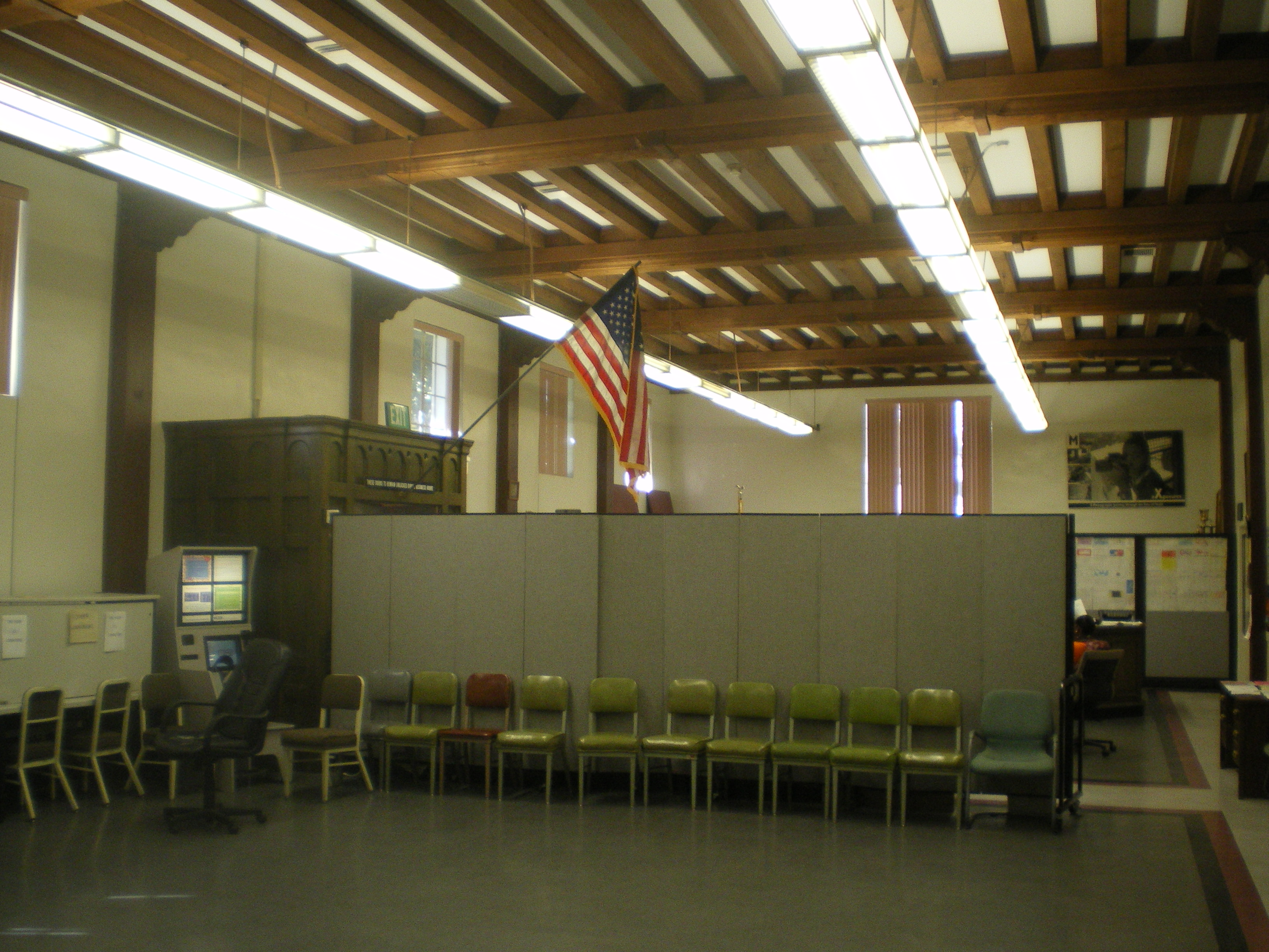 Old Venice Branch Library, interior view — Venice, Los Angeles, California